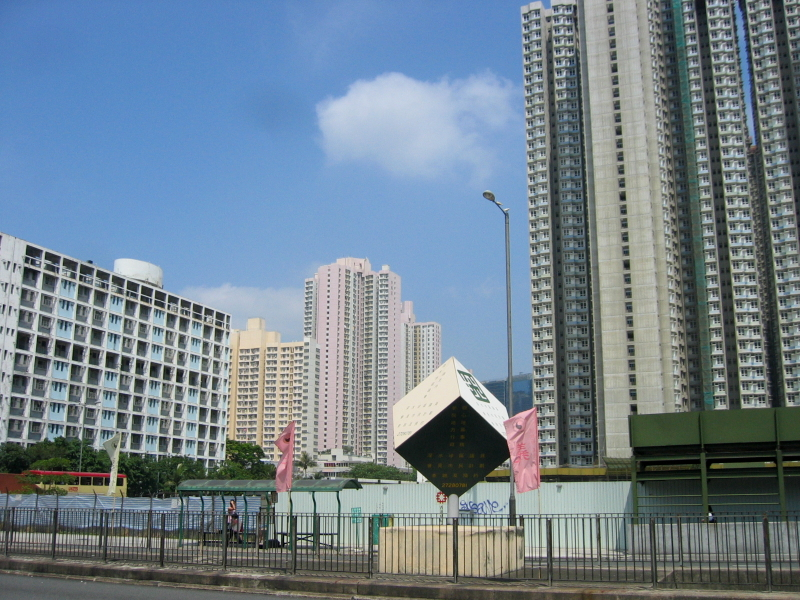 Cheung Sha Wan New Public Housing